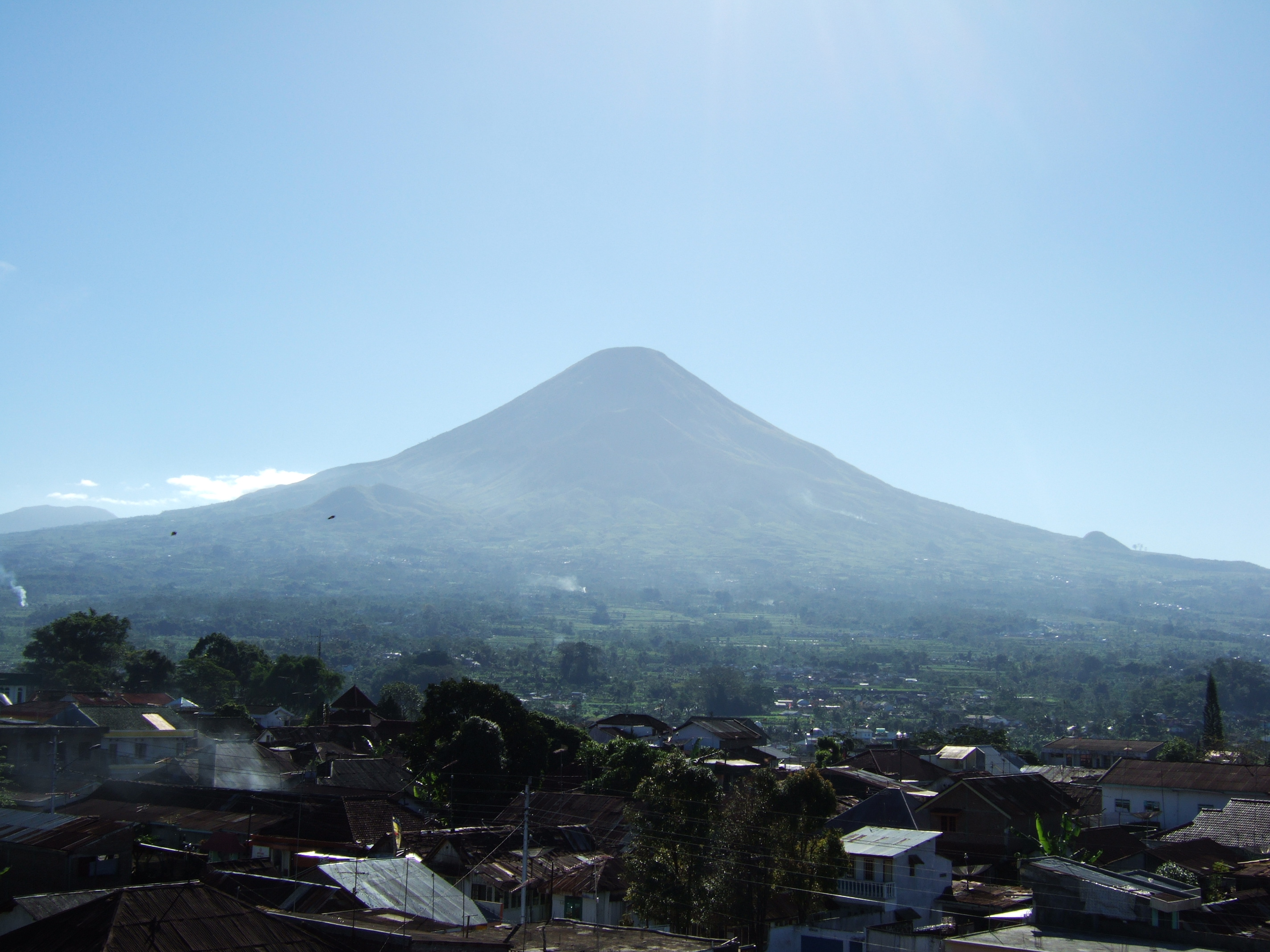 Mount Sindoro, view from Wonosobo city, Central Java, Indonesia